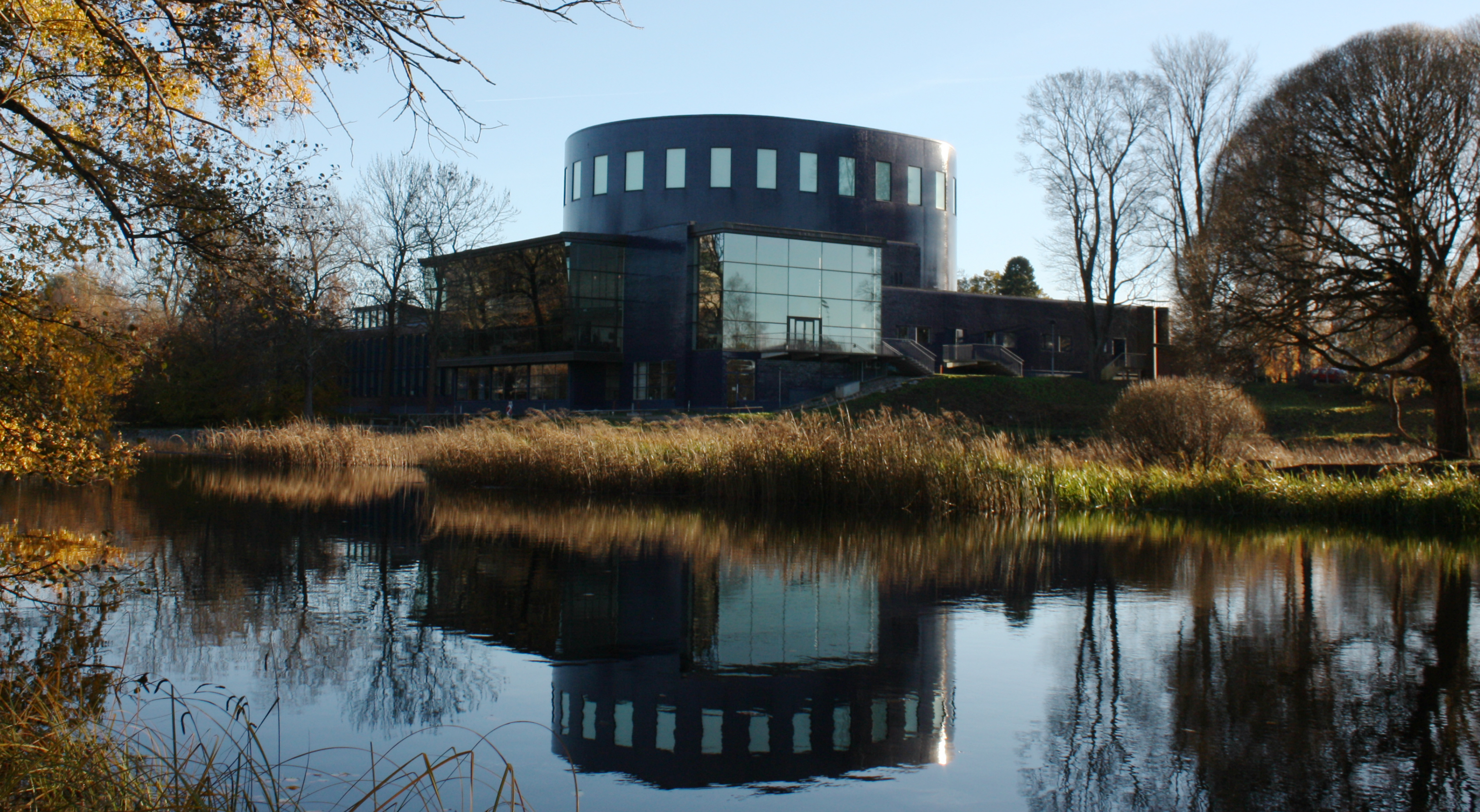 Gävle Concert Hall. October 2013.